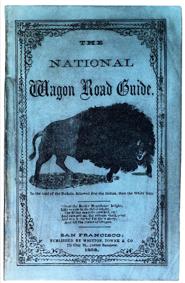 National Wagon Road Guide, published to guide travelers along the Oregon Trail.